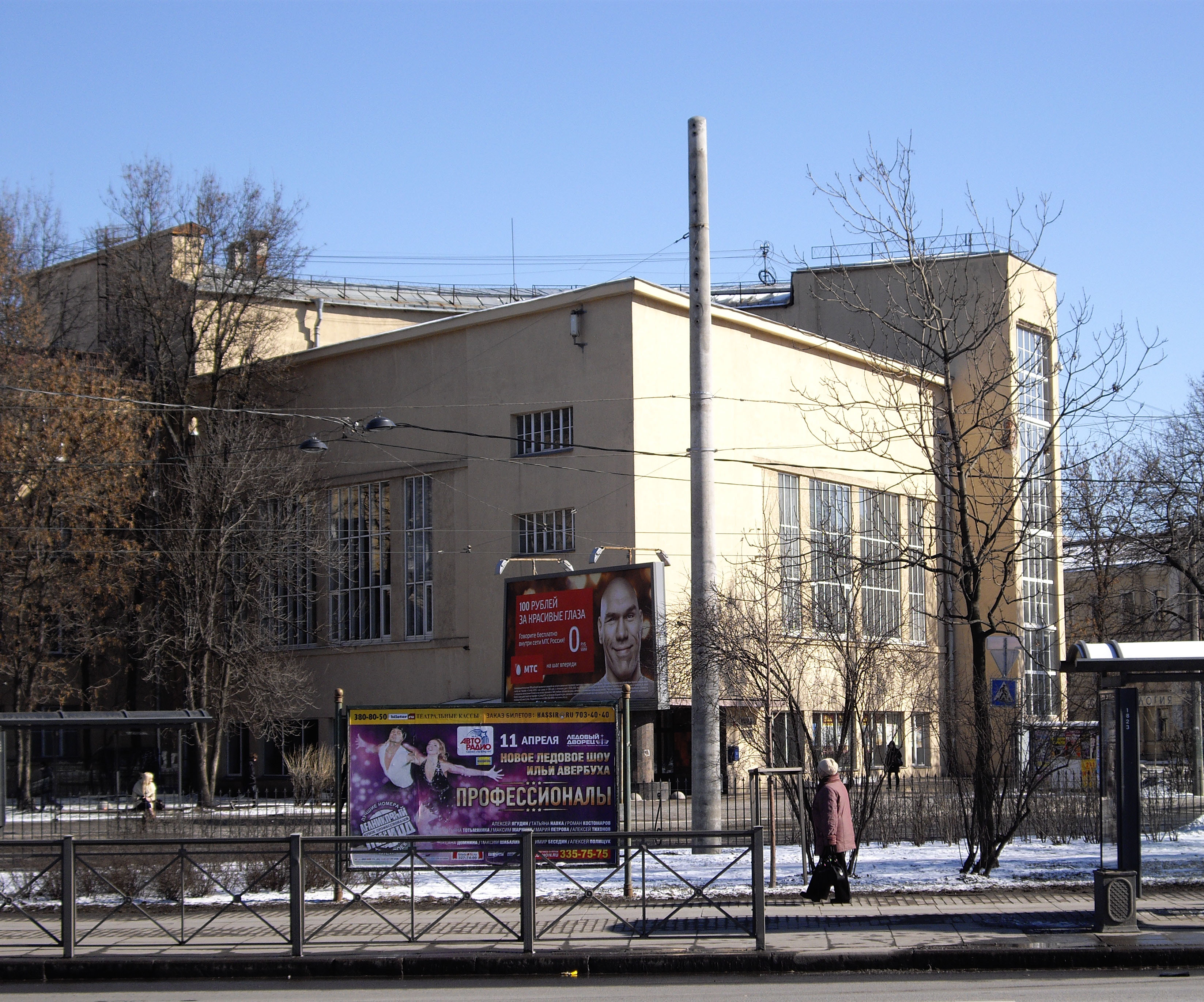 9, Kronverkskii Prospekt (Saint Petersburg), between Krest'yanskii Pereulok and Konnyi Pereulok - former Institute of Signalization and Communications, heritage of constructivist architecture.